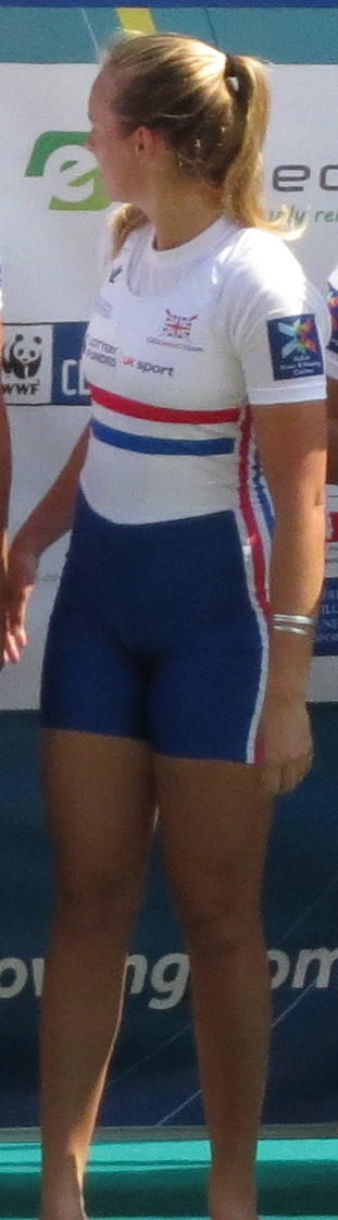 Podium 2015 Coxless 4 GBR : Rebecca Chin, Karen Bennett, GOODERHAM, Lucinda and NORTON, Holly